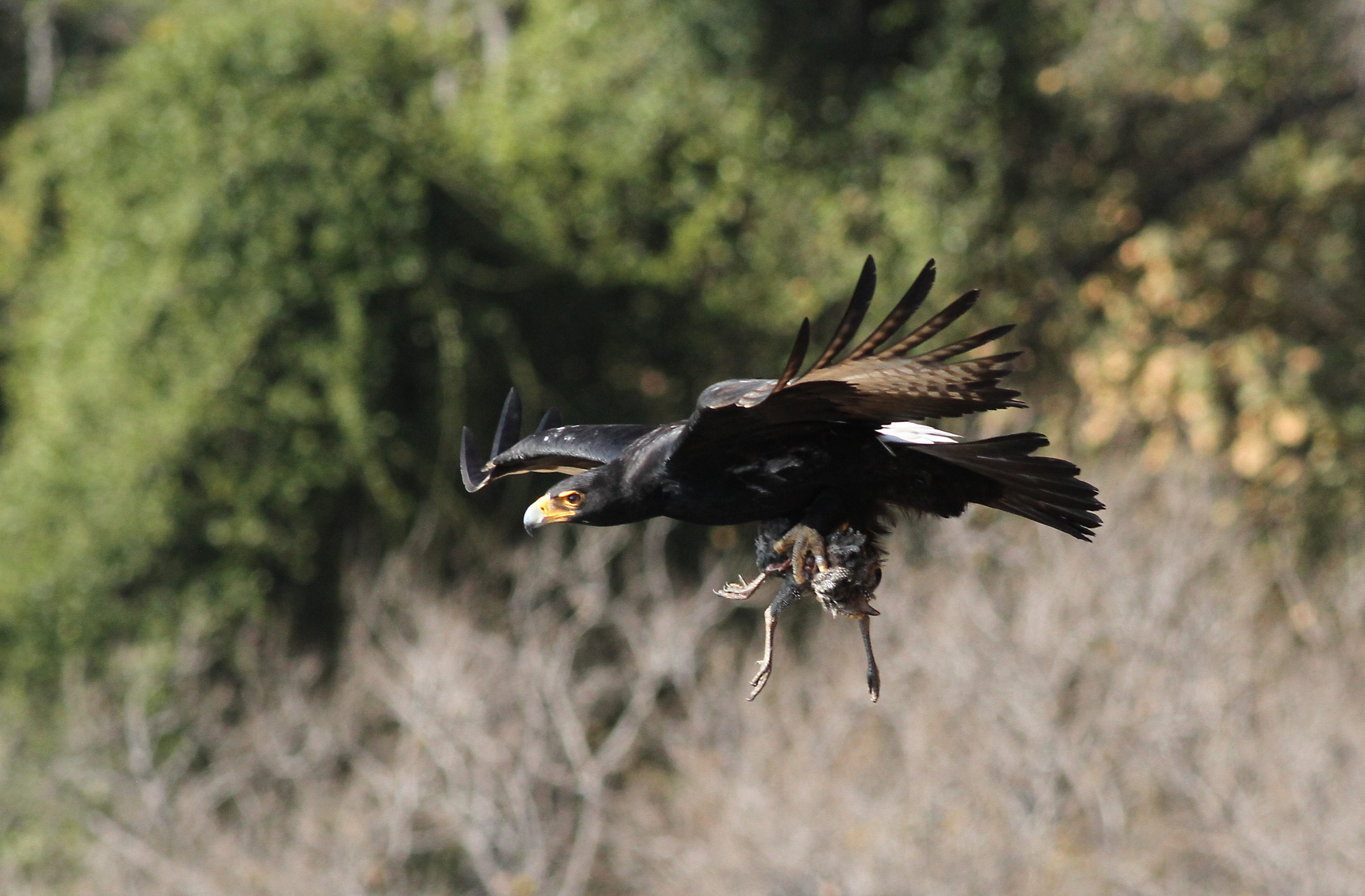 Verreaux's Eagle. Black Eagle, Aquila verreauxii, at Walter Sisulu National Botanical Garden, Gauteng, South Africa